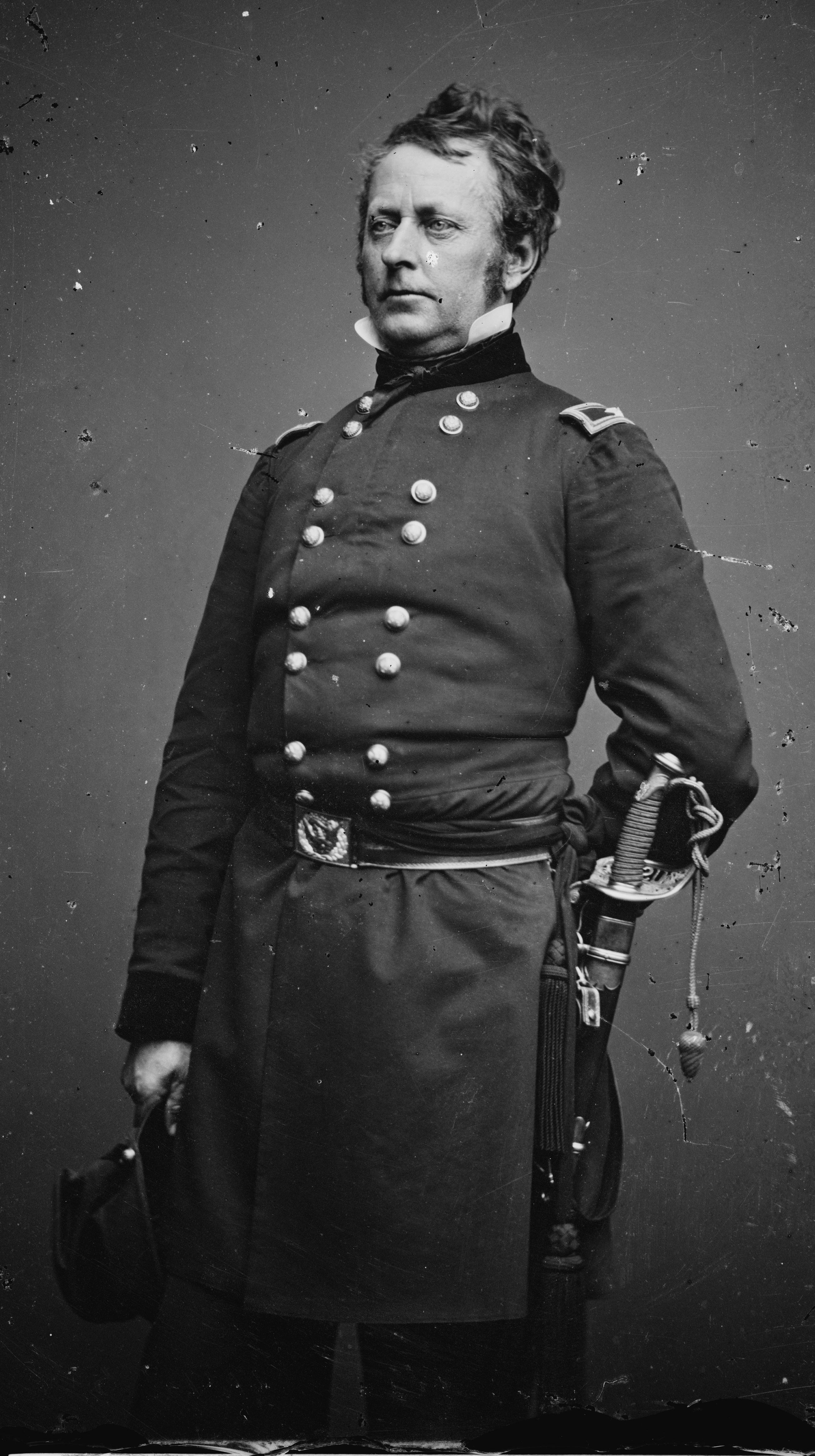 Joseph Hooker. Library of Congress description: "Brig. Gen. Joseph Hooker"